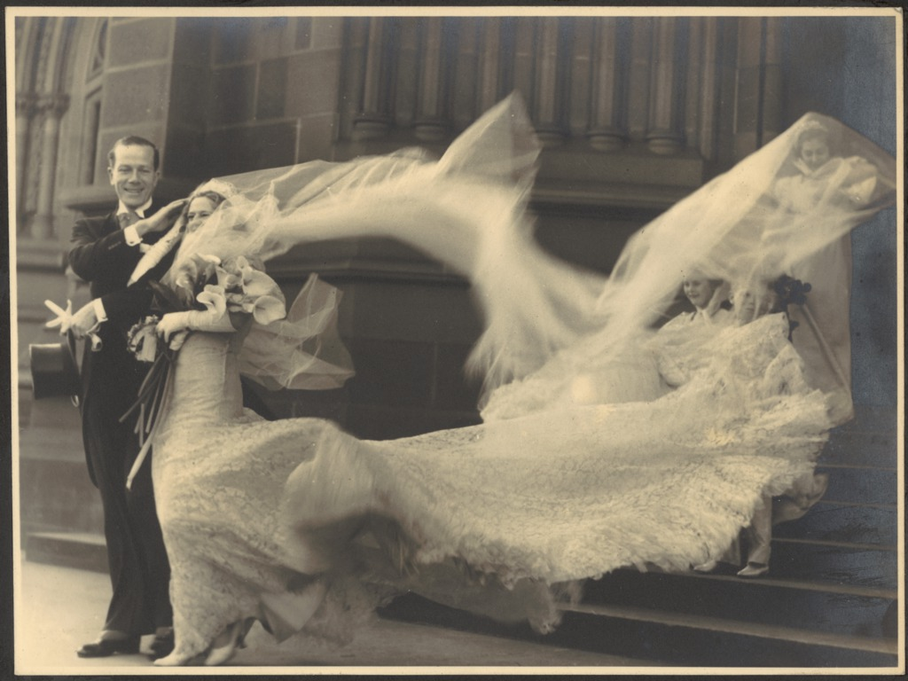 In album: Cyril Ritchard album of his wedding to Madge Elliott, and theatrical performance and personal photographs, 1930-1946.; Title devised by cataloguer from reference sources.; Also available in an electronic version via the Internet at: .au/nla.pic-vn3666356-s10-a2; Purchased 2005. Persistent URL .au/nla.pic-vn3666356-s10-a2